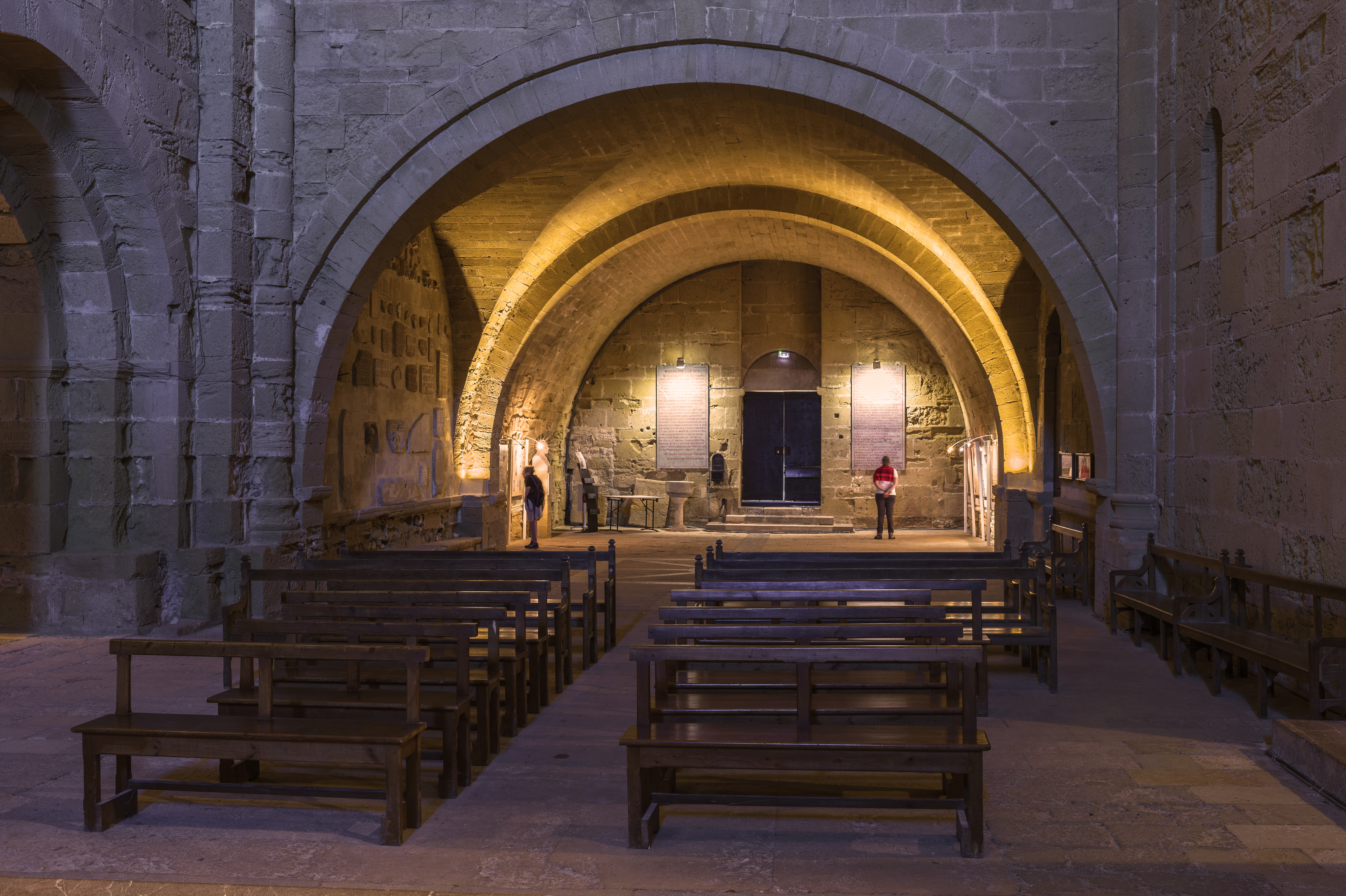 Maguelone Cathedral. Villeneuve-lès-Maguelone, Hérault, France.